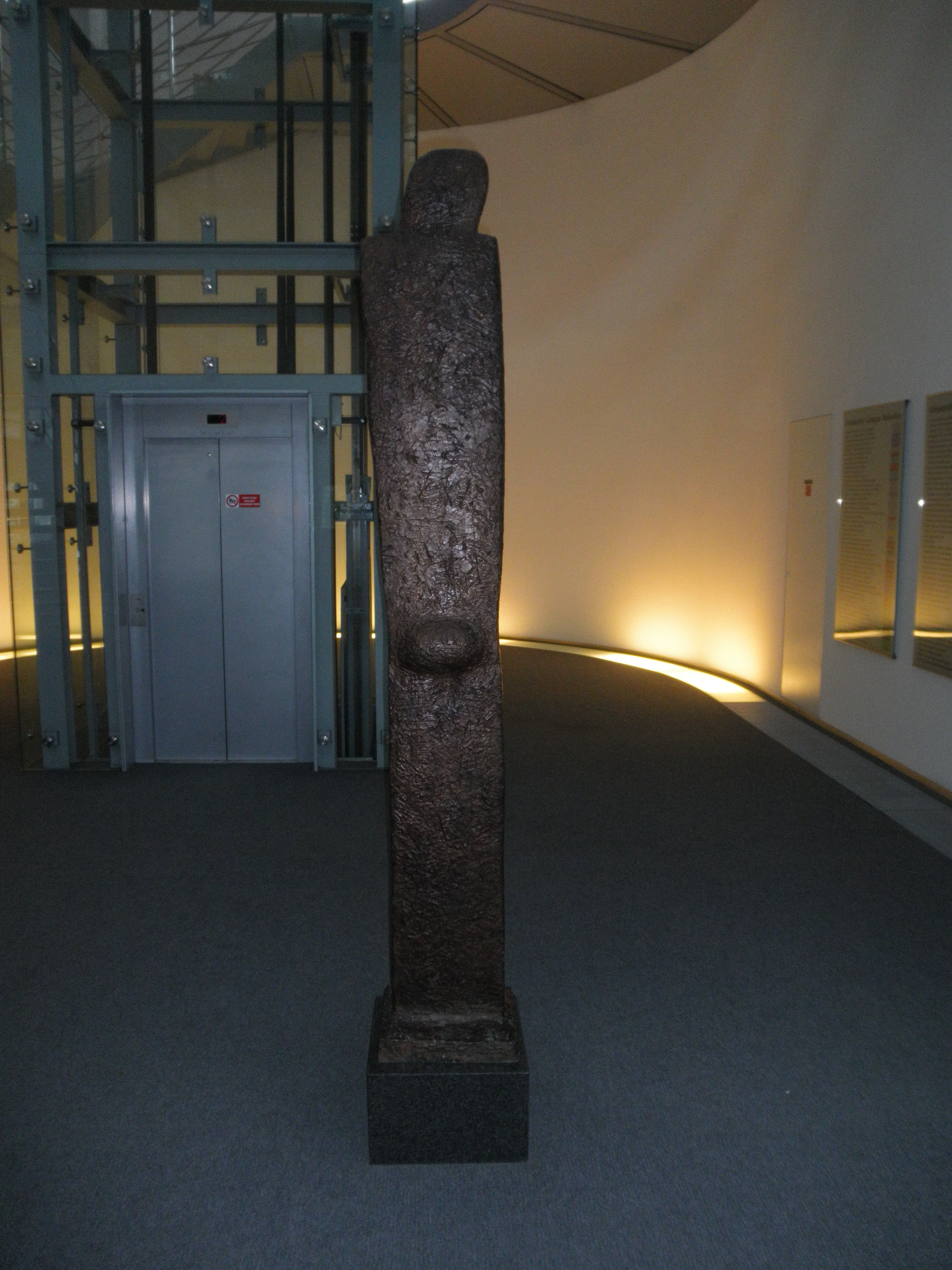 Untitled bronze stele by Zdeněk Palcr in the main entrance of the Morphology Centre of Medical Faculty in Masaryk University Campus, Brno, Czech Republic.